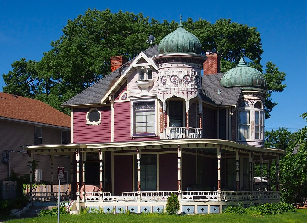 Bardwell-Ferrant House, 2500 Portland Ave, Minneapolis, Minnesota, USA. Viewed from the east-northeast.